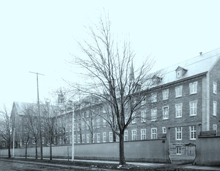 Photograph, Grey Nuns Convent building from Guy Street, Montreal, QC, about 1890. Silver salts on paper mounted on card - Albumen process - 18.6 x 24.7 cm